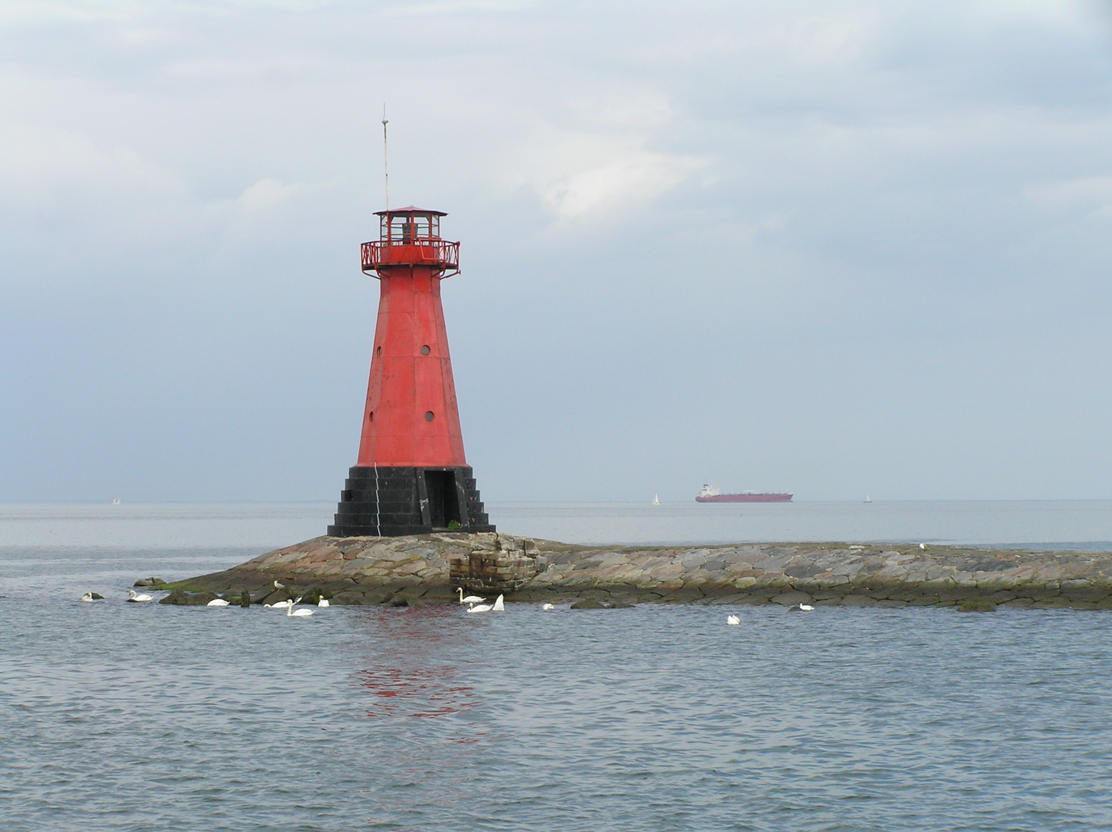 Harbour lighthouse in the Port of Gdańsk.